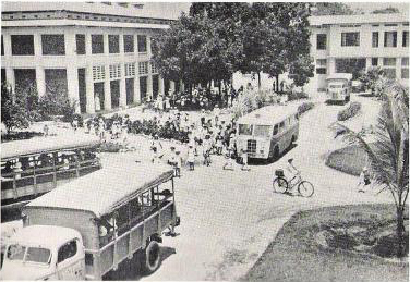 Busy city square in Leopoldville, circa 1943